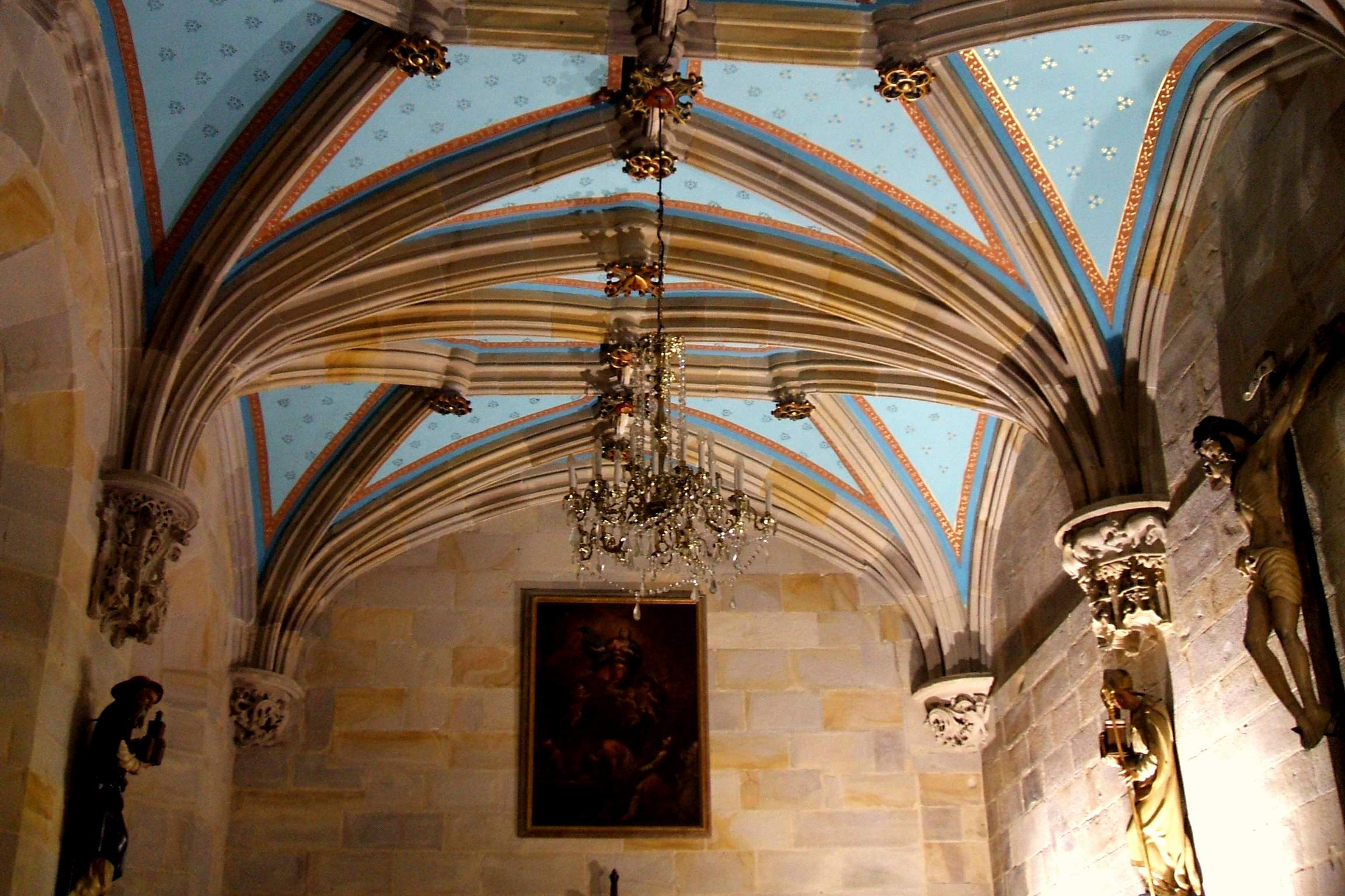 Bóveda de la Sacristía de la Catedral de Santiago de Bilbao, País Vasco, España